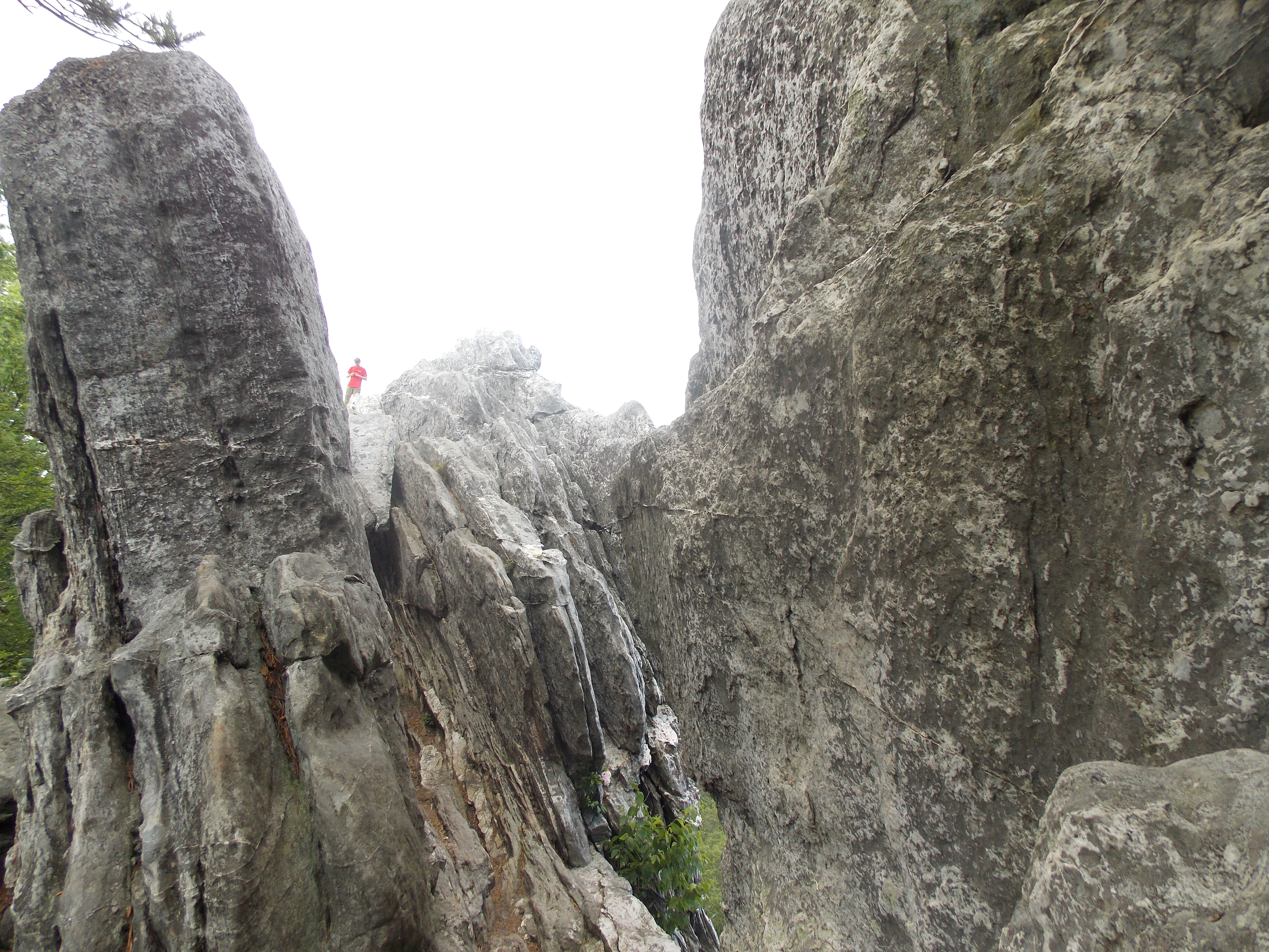 Rocks at the top; Dragon Tooth, Virginia